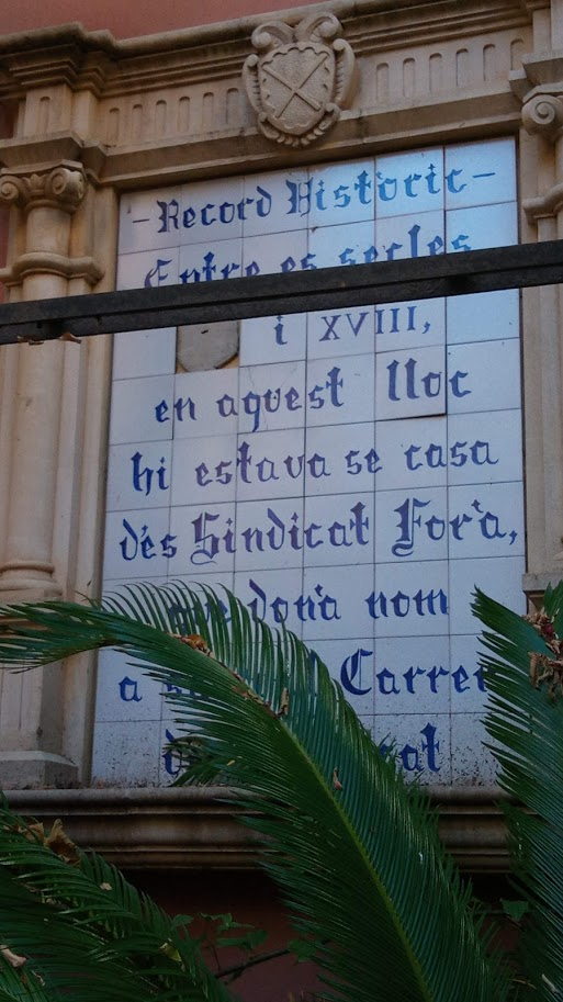 This plaque can be found at the 23th Sindicat street, between Can Espanya and Can Móra streets, in Majorca. The inscription recalls that there used to be the headquarters of the Sindicat de Fora: «Historical recall - Between the 14th and 18th Centuries, in that place used to stand the home of the Sindicat Forà, which gave name to the current Sindicat street».